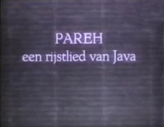 Screenshot of the title card for the 1935 film Pareh